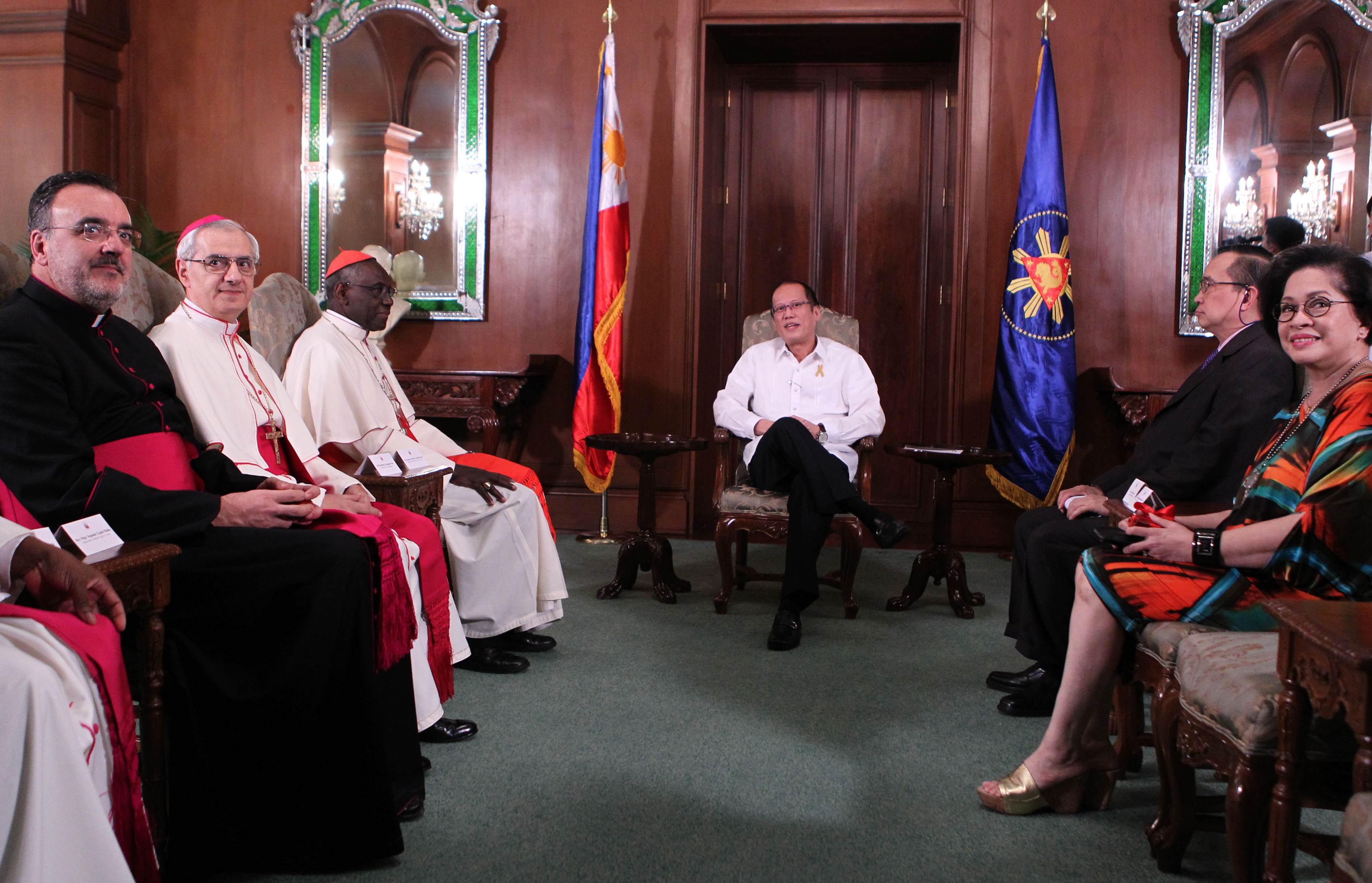 President Benigno S. Aquino III exchanges views with His Eminence Robert Cardinal Sarah, President of the Pontifical Council Cor Unum, during the Courtesy Call at the Music Room of the Malacañan Palace on Wednesday (January 29, 2014). Also in photo are Apostolic Nuncio to the Philippines His Excellency Archbishop Guiseppe Pinto, Cor Unum Undersecretary Rev. Msgr. Segundo Muñoz, Foreign Affairs Undersecretary Evan Garcia and Parish Pastoral Council for Responsible Voting (PPCRV) chairperson Henrietta de Villa. (Photo by Gil Nartea / Malacañang Photo Bureau)